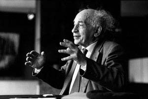 Alfred Sauvy